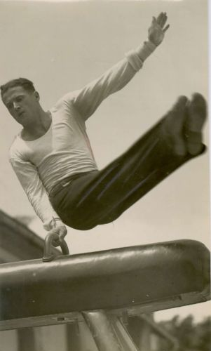 Miro Forte